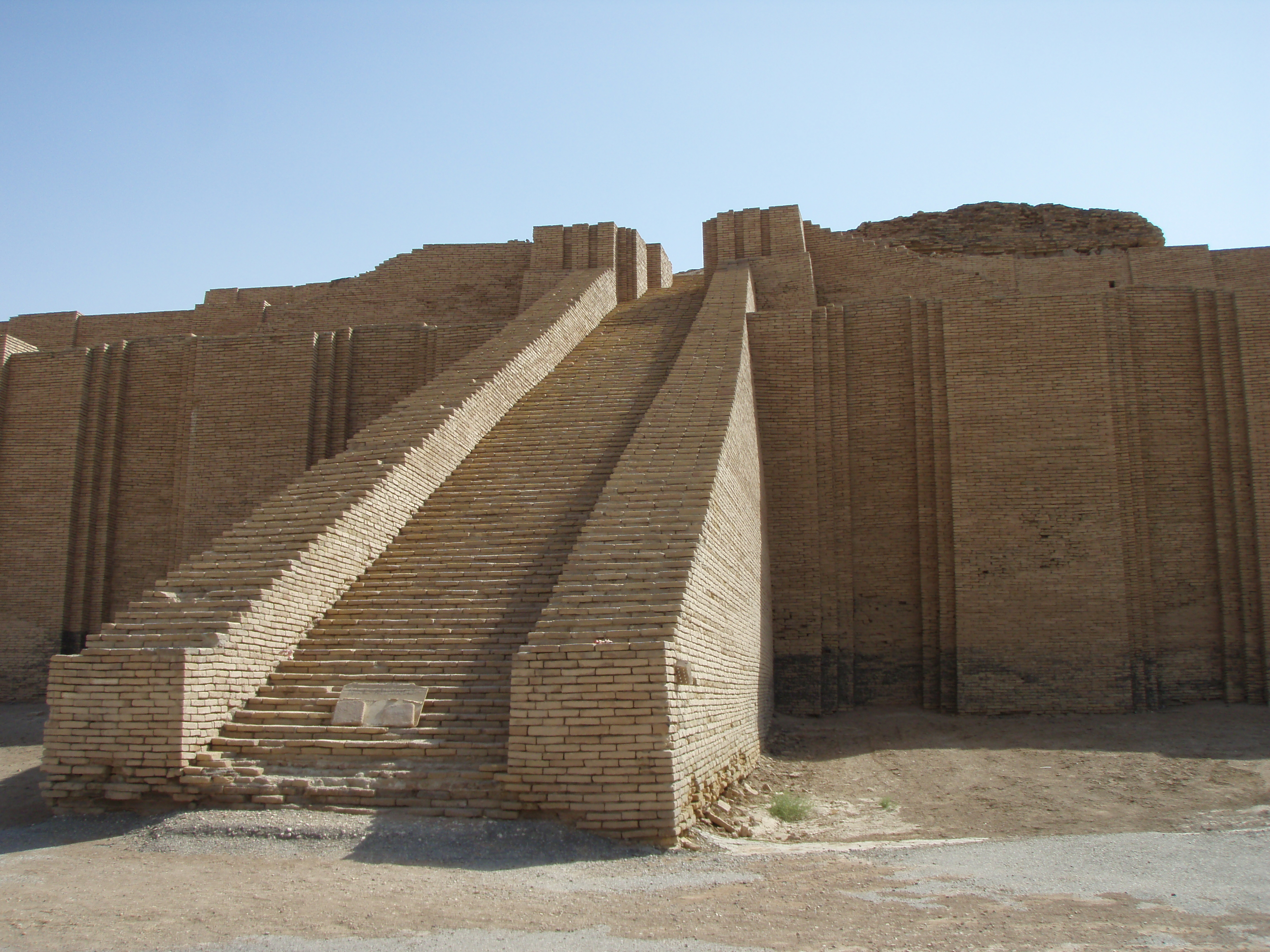 ziggurat of ur